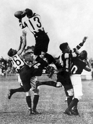 Collingwood footballer Dick Lee takes a spectacular mark against Carlton, Round 1, 1914 VFL Season.